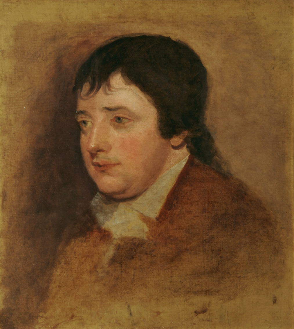 This undated portrait is of John Ninham (1754-1817), one of the founding members of the Norwich School of painters.